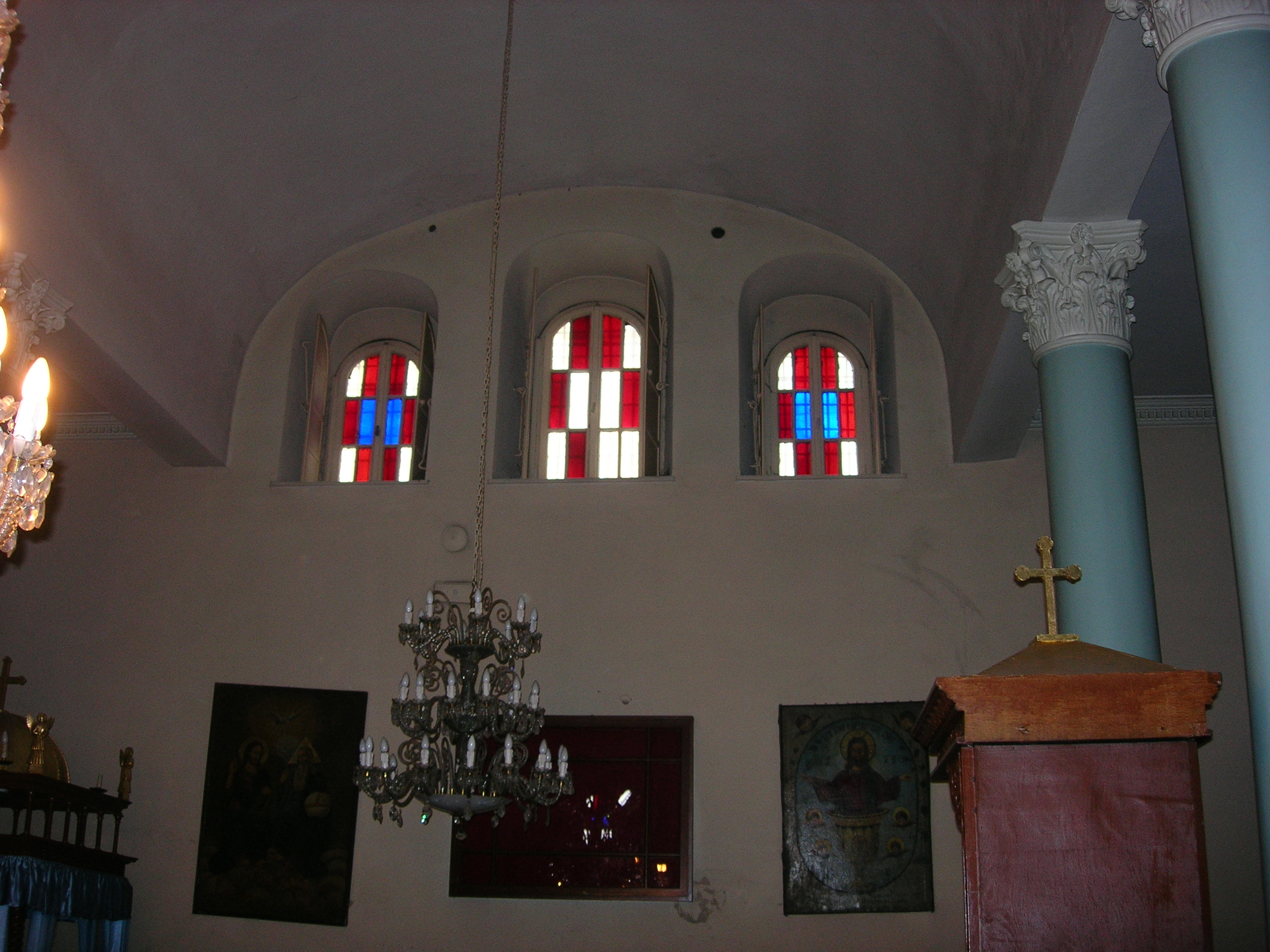 The interior of the church towards N